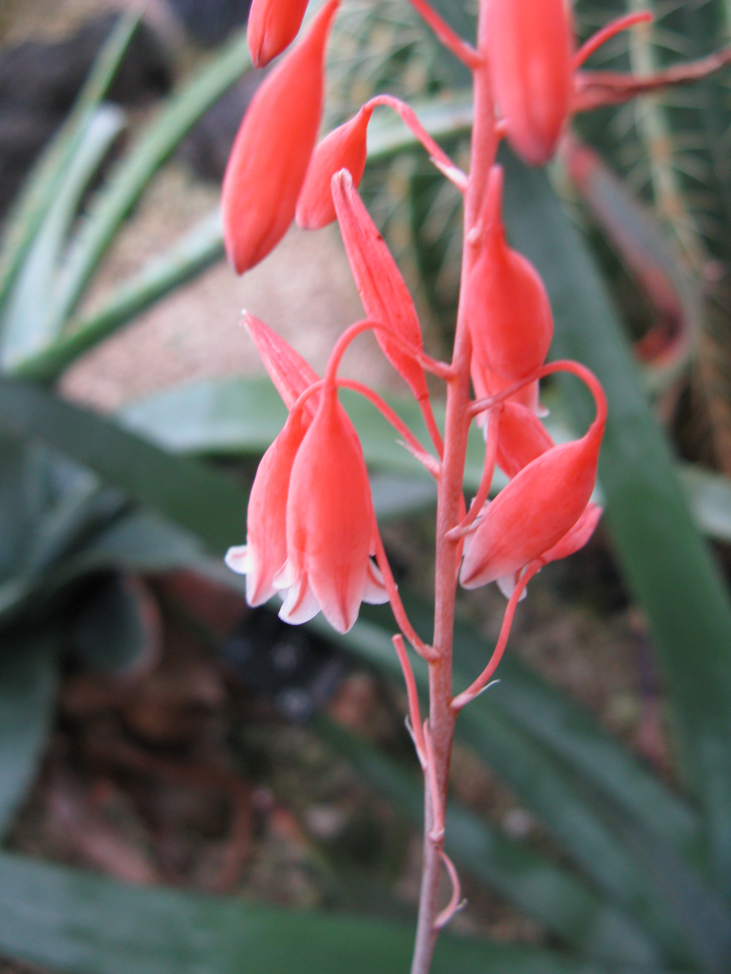 Scientific name Aloe bellatula Place:Osaka Prefectural Flower Garden,Osaka,Japan